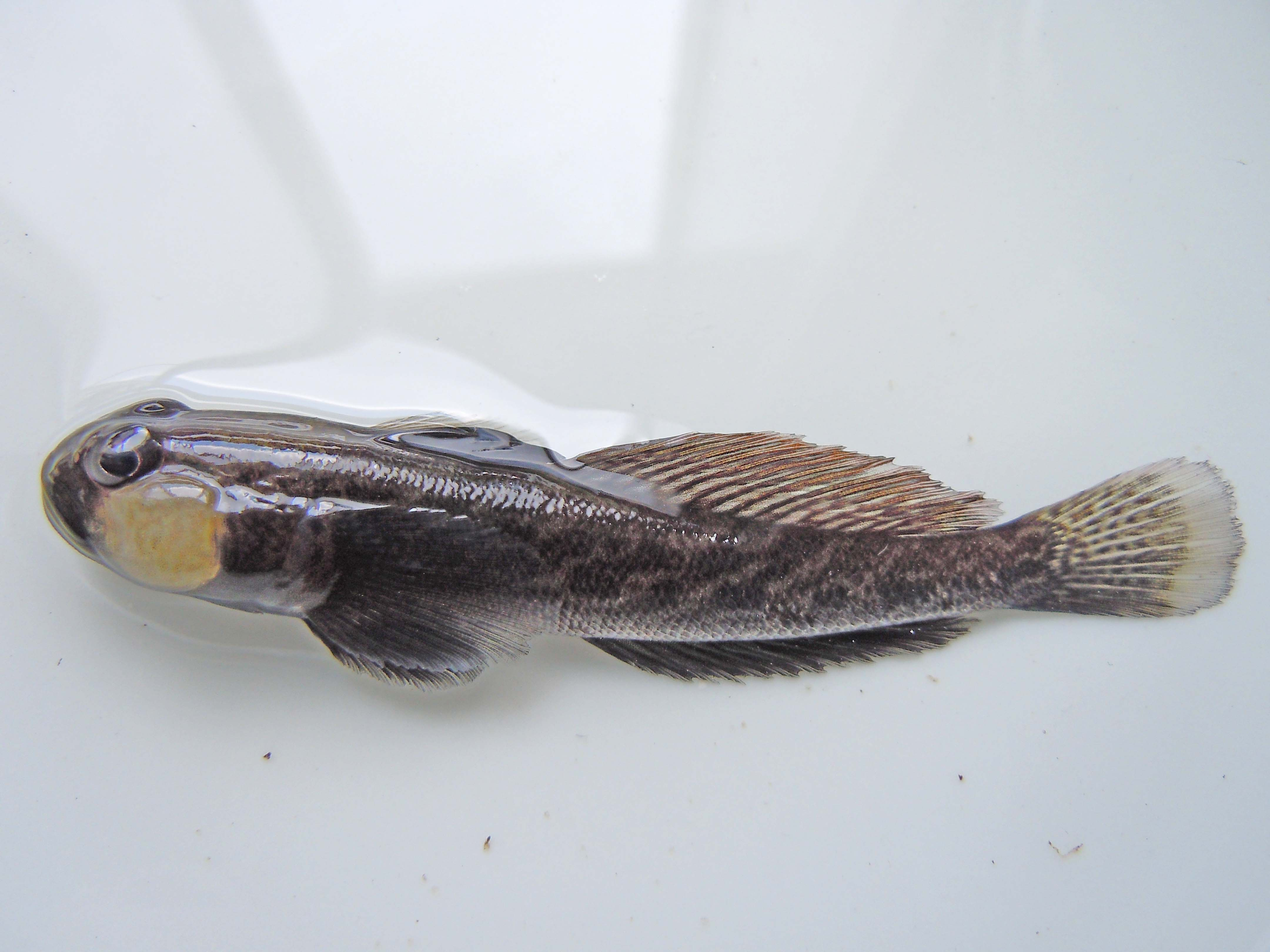 The racer goby (Babka gymnotrachelus) from the Dnieper River near Kiev, Ukraine